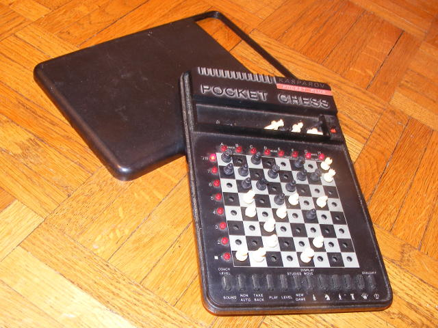 The POCKET PLUS is a pressure sensory travel chess computer. The different parts of this electronic game were made by SciSys in three cities: London, Los Angeles and Hong Kong. The words on the front are: KASPAROV / POCKET PLUS / POCKET CHESS. Its power consumption is 0.01 watt using three AAA or AM-4 batteries. Its article number is 115.